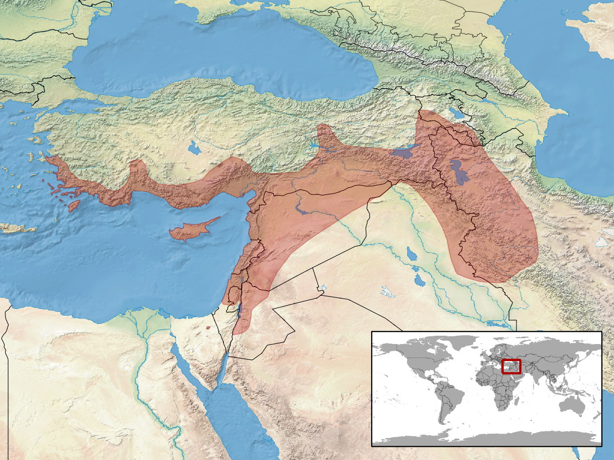 geographic distribution of Dolichophis jugularis (Native: Cyprus; Egypt; Greece; Iran, Islamic Republic of; Iraq; Israel; Jordan; Syrian Arab Republic; Turkey)